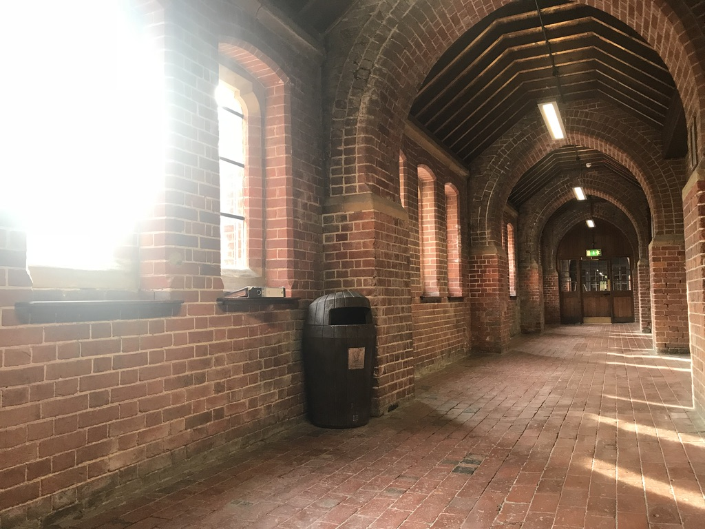 View of part of the cloisters of Ardingly Colleg in West Sussex.